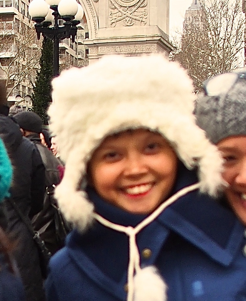 Ron Villanueva, Lara Stapleton, Gina Apostol, Nita Noveno